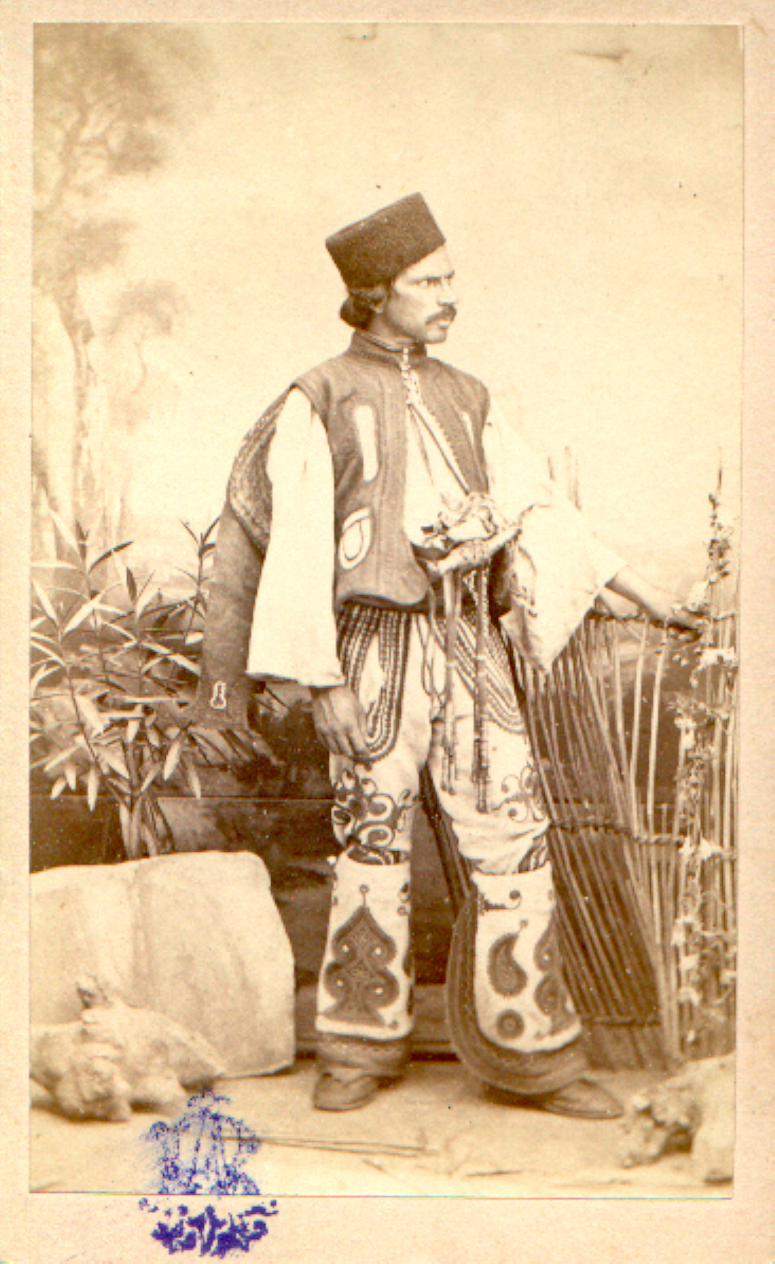 photograph by Carol Popp de Szathmary Postillion, Bucharest